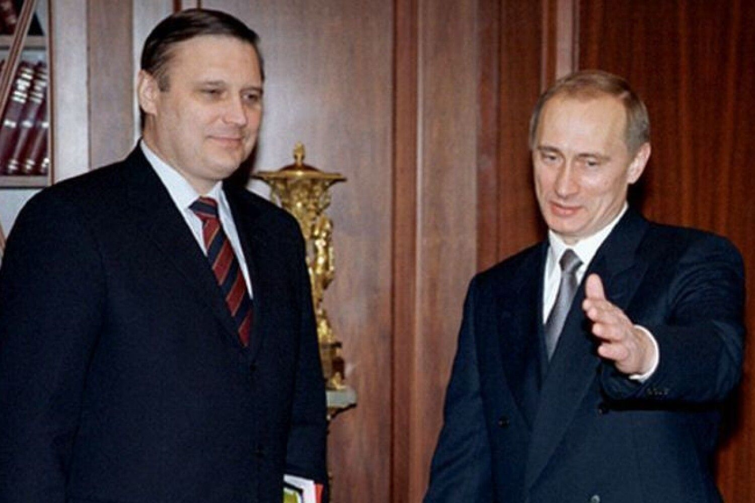 THE KREMLIN, MOSCOW. With First Deputy Prime Minister and Finance Minister Mikhail Kasyanov.